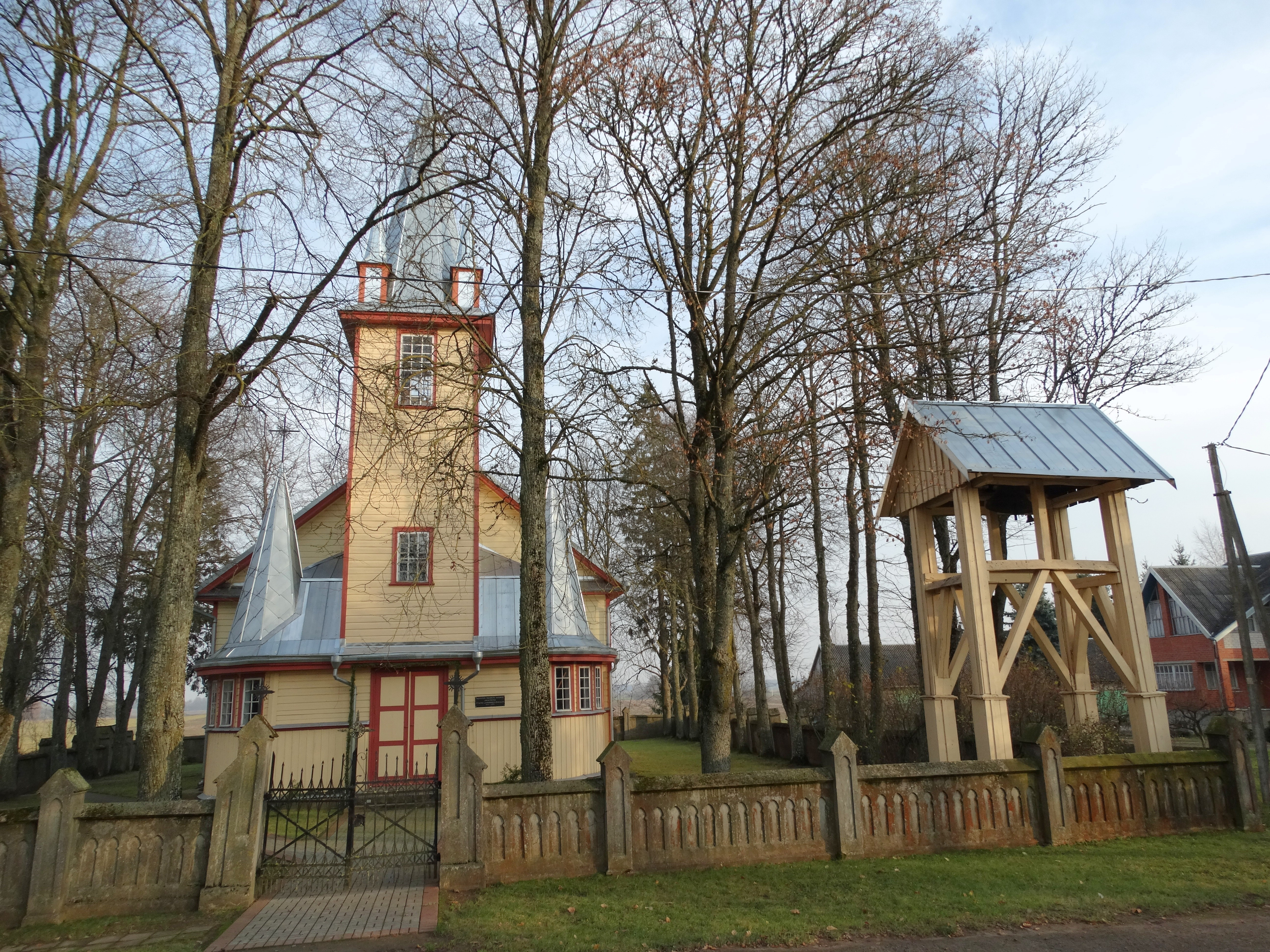 Roman Catholic Church in Kiburiai, Pasvalys district, Lithuania